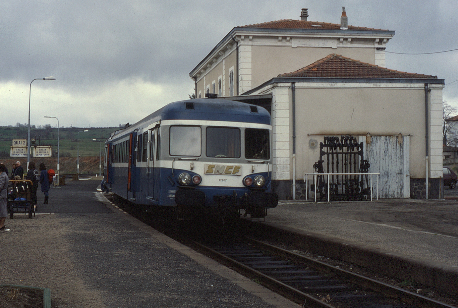 Seen at the end of its 200km journey, single railcar X2807 has arrived on train 7667, 07:45 Lyon-Perrache to St-Georges-d'Aurac. Known as "Massif Central" units as they spent most of their life working in the central area of France with many steep gradients.